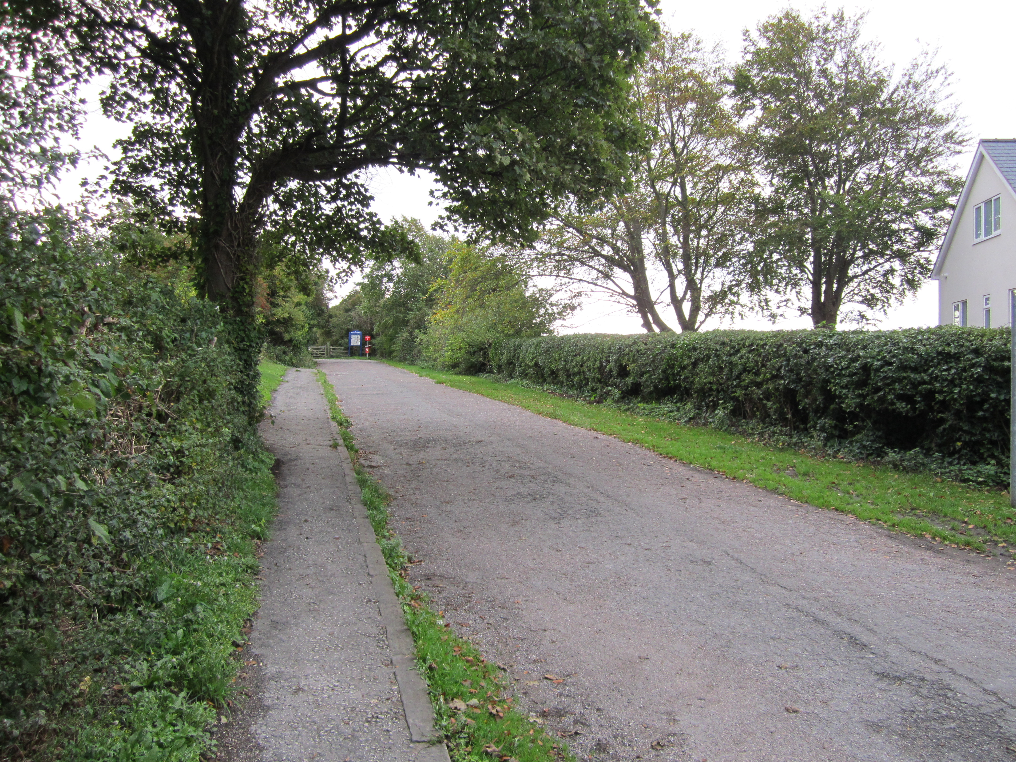 Photo taken at or near the site of the former Parkgate railway station, Cheshire, England.